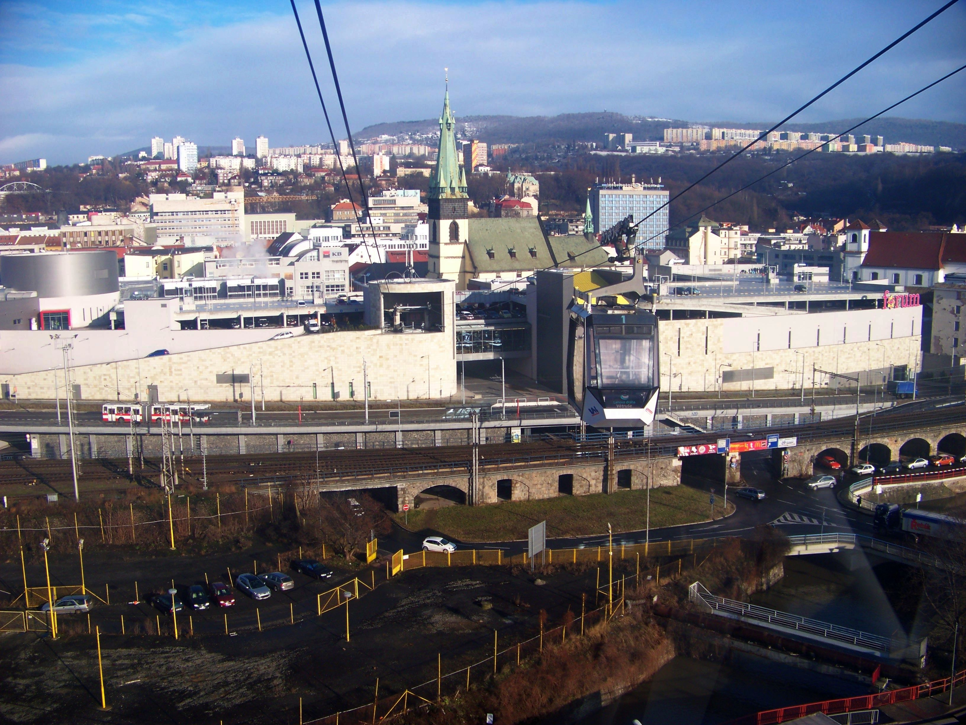 Ústí nad Labem, the Czech Republic. A view from Větruše Cableway to the city center.